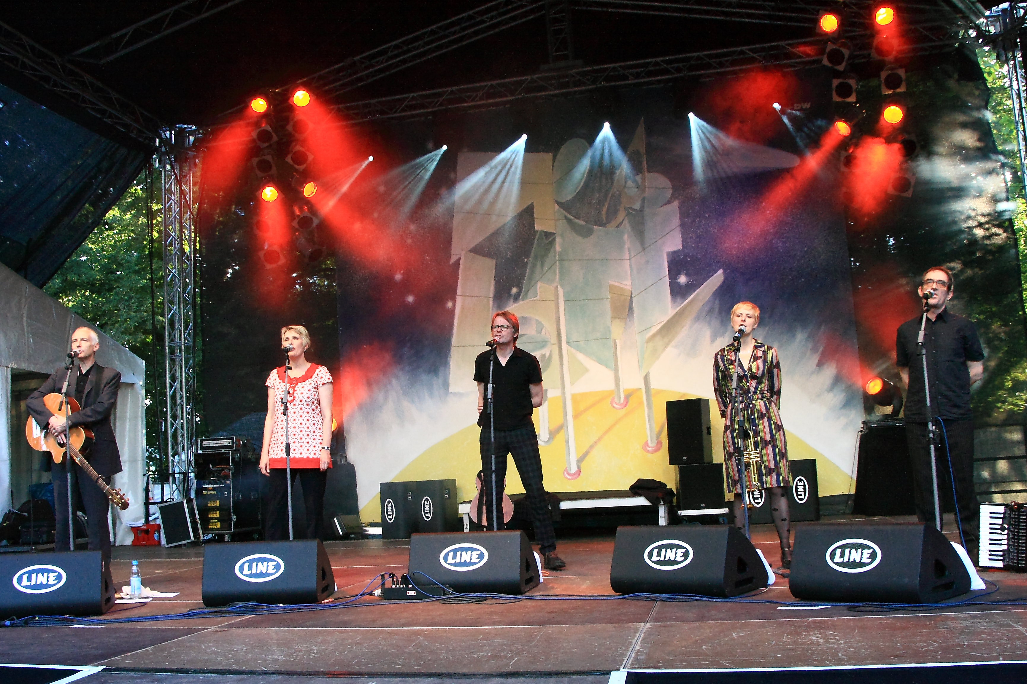 Chumbawamba a capella at TFF Rudolstadt 2012. L.t.r.: Neil Ferguson, Lou Watts, Boff Whalley, Jude Abbott & Phil Moody.